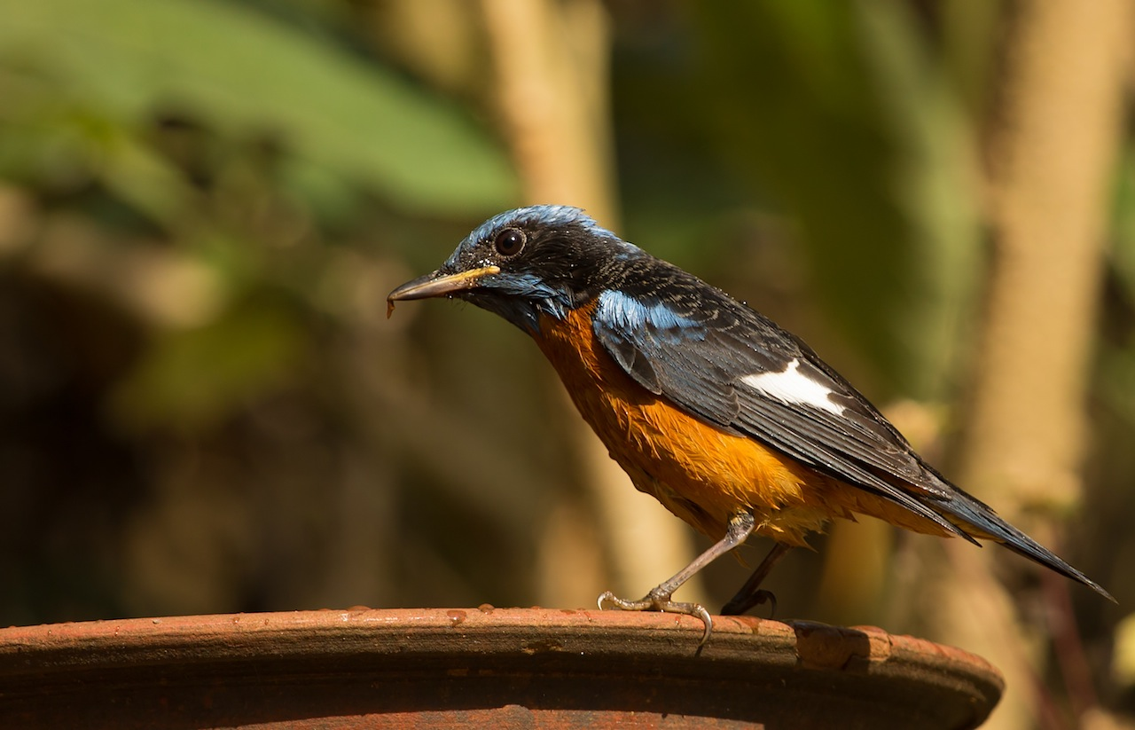 At the Old Magazine House in Ganeshgudi, Dandeli